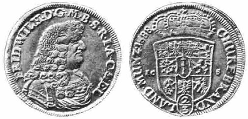 2 3 Thaler 1688 Friedrich Wilhelm of Brandenburg-Prussia Leipzig Münzfuß. Source of image Schrötter Friedrich Freiherr von. Das Münzwesen Brandenburgs während der Geltung des Münzfußes von Zinna und Leipzig // Hohenzollern-Jahrbuch : Forschungen und Abbildungen zur Geschichte der Hohenzollern in Brandenburg-Preußen / hrsg. von Paul Seidel. — Berlin: Giesecke & Devrient, 1907. — Bd. 11. — S. 63—74. Author died at 1944 due to article in German Wikipedia